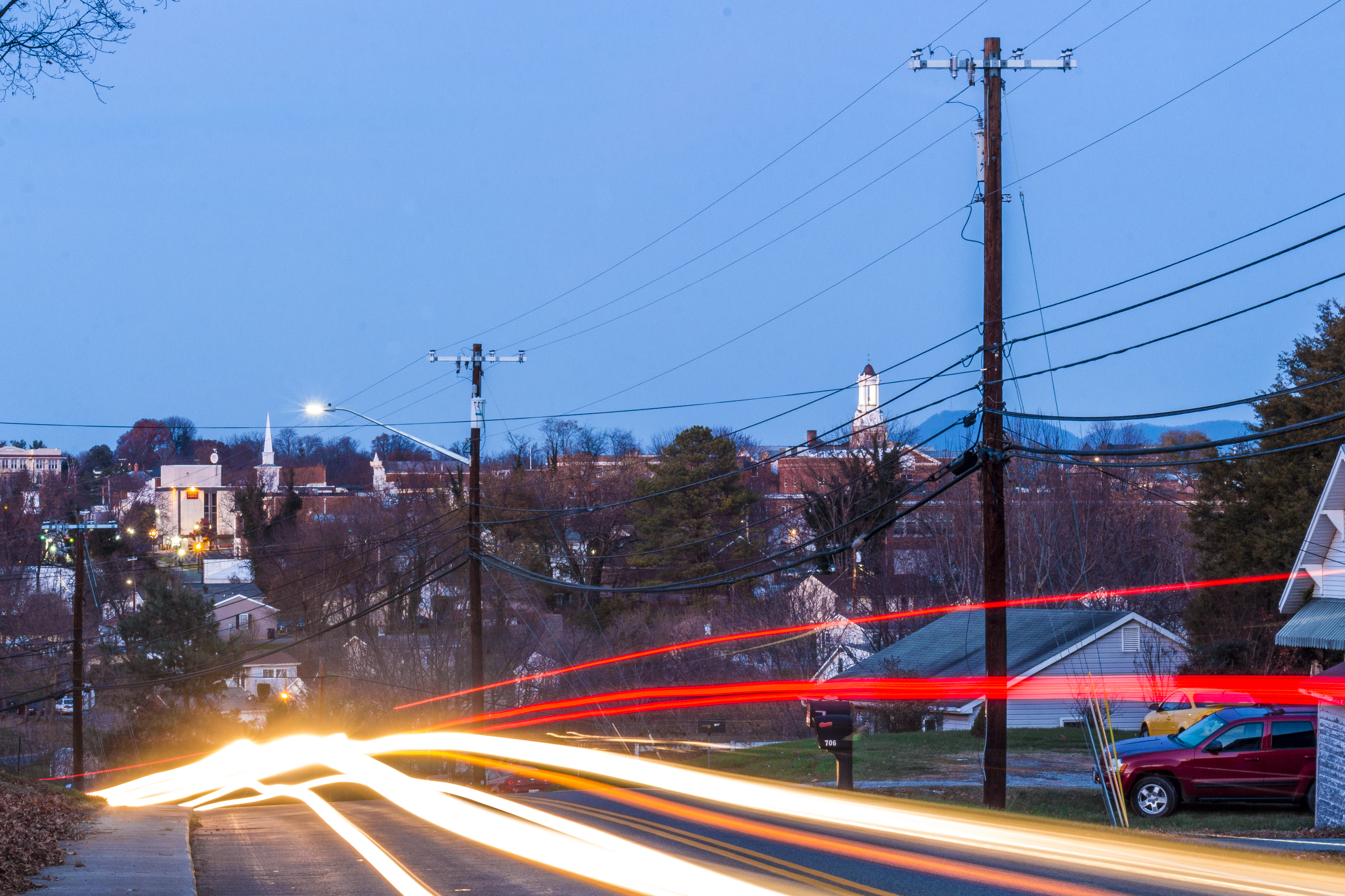 The town of Bedford, Virginia, on Thanksgiving Day 2015.